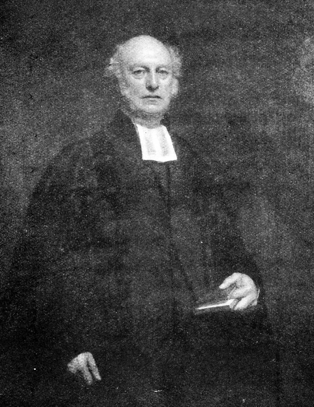 Portrait from "Matthew Leishman of Govan and the Middle party of 1843, a page from Scottish Church life and history in the nineteenth century"